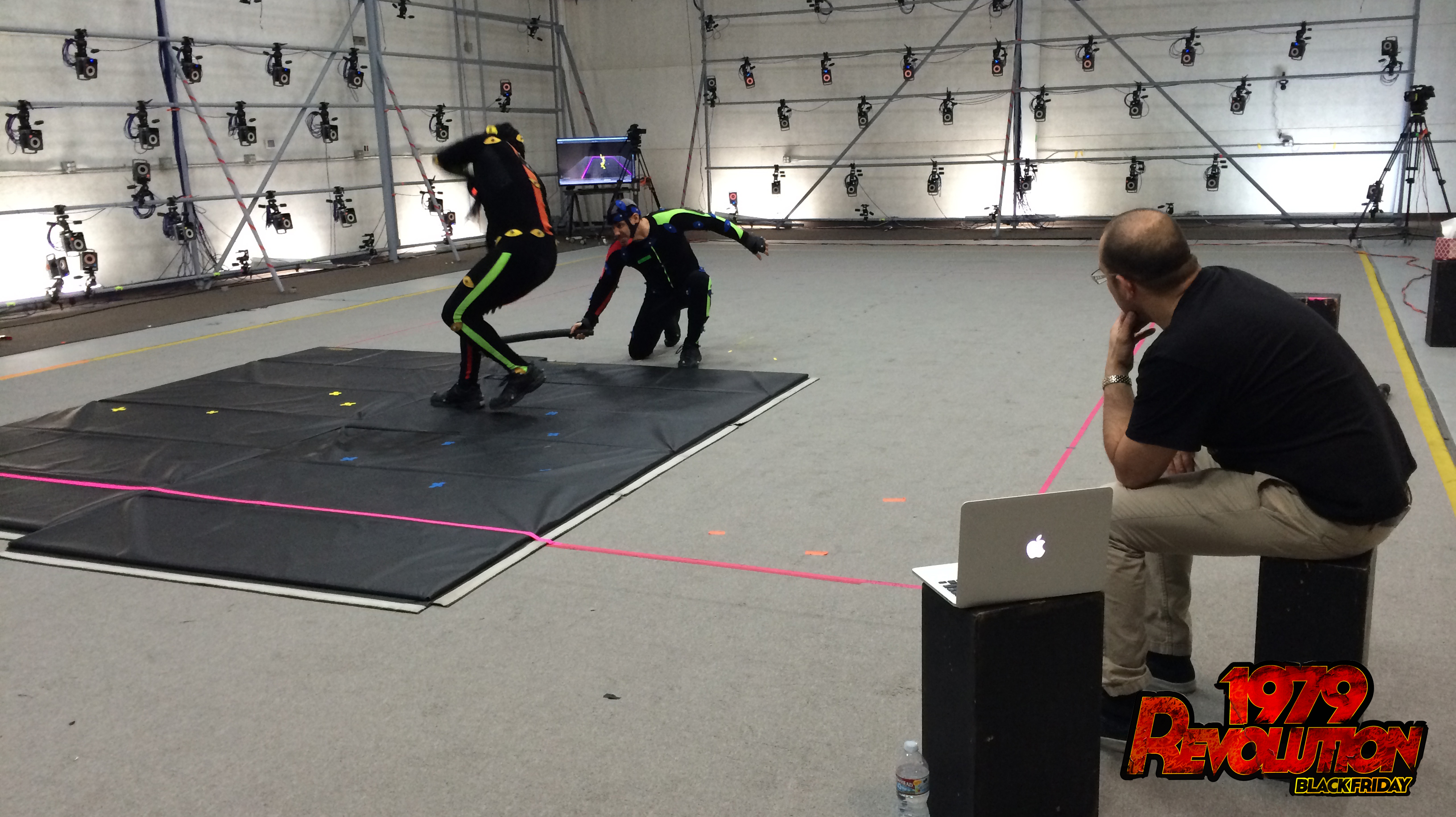 Motion capture being performed for the video game 1979 Revolution: Black Friday.